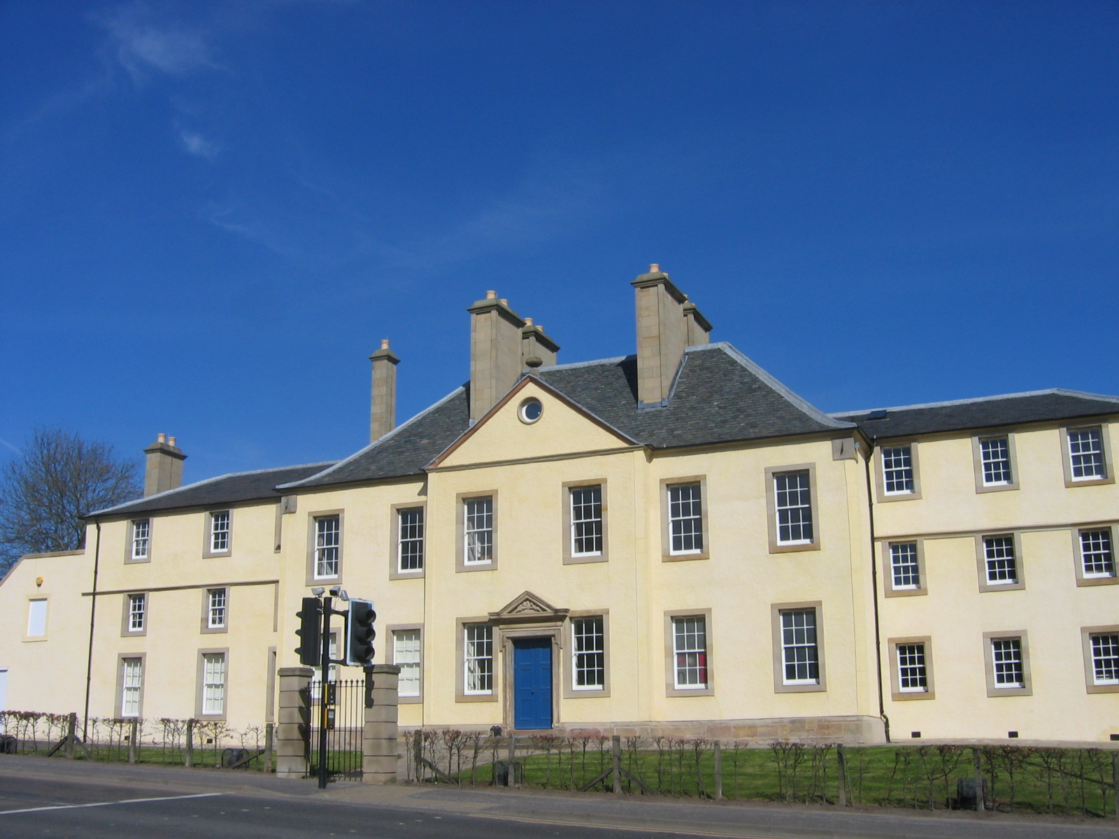 The Low Parks Museum, Hamilton, Scotland, formerly David Crawford's House, designed by architect James Smith.